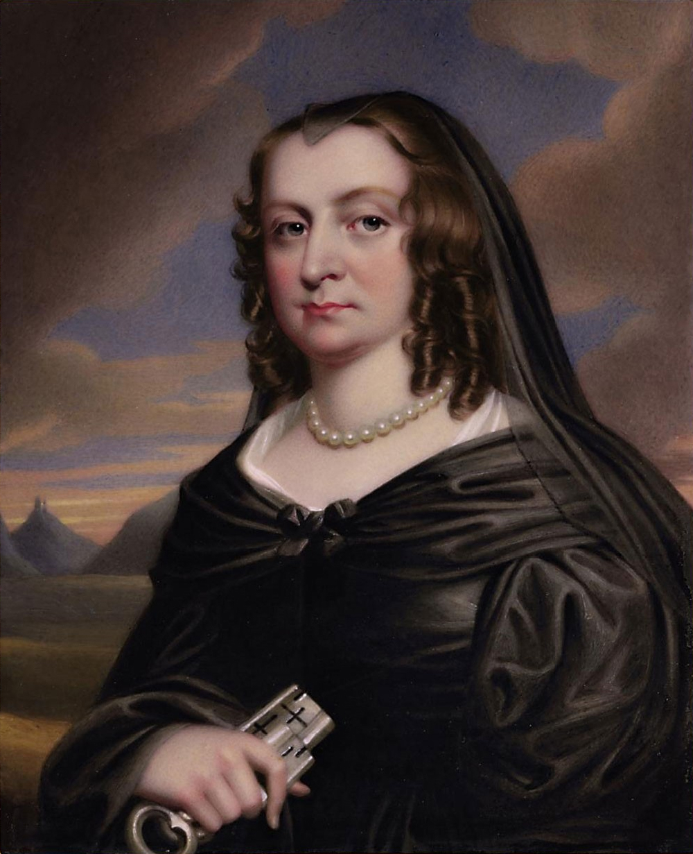 in widow's dress, gauze veil, pearl necklace, holding the keys to Corfe Castle, Dorset, in her right hand; landscape background with Corfe Castle in the distance